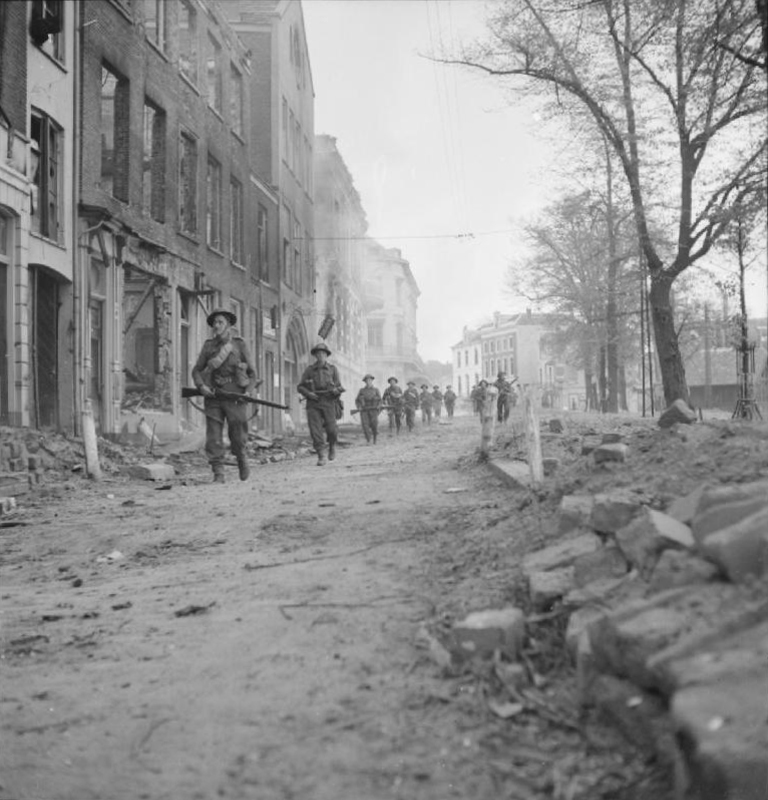 Troops walking through the devastated streets of Arnhem, 14 April 1945.